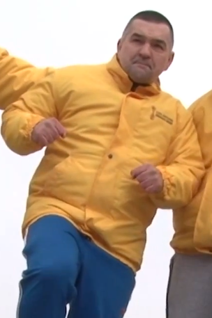 Leonard Doroftei, Romanian boxer in box stance